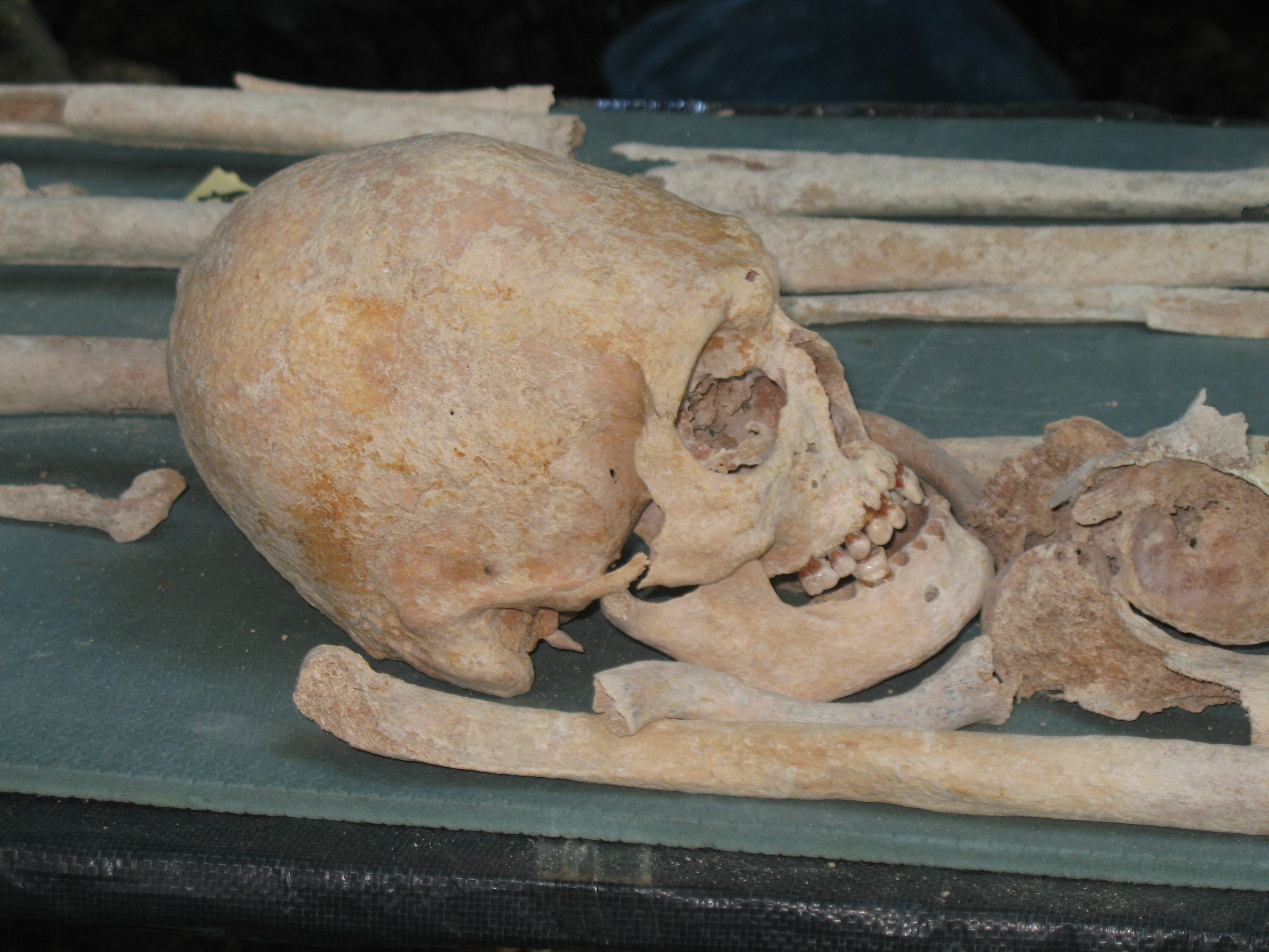 During the expedition we were investigated Alans burial on the slopes of the cave city Mangup-Kale. The presence of skulls with artificial deformation and their study allows to recreate the traditions and rituals of the ancient population.